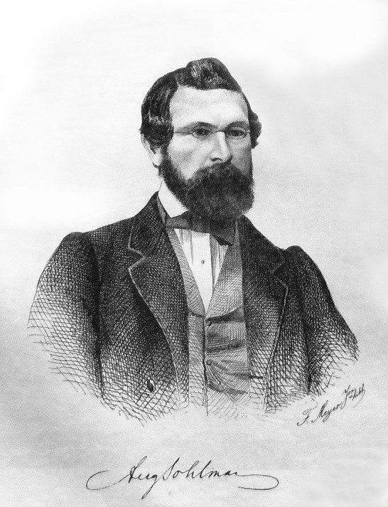 Aftonbladet.